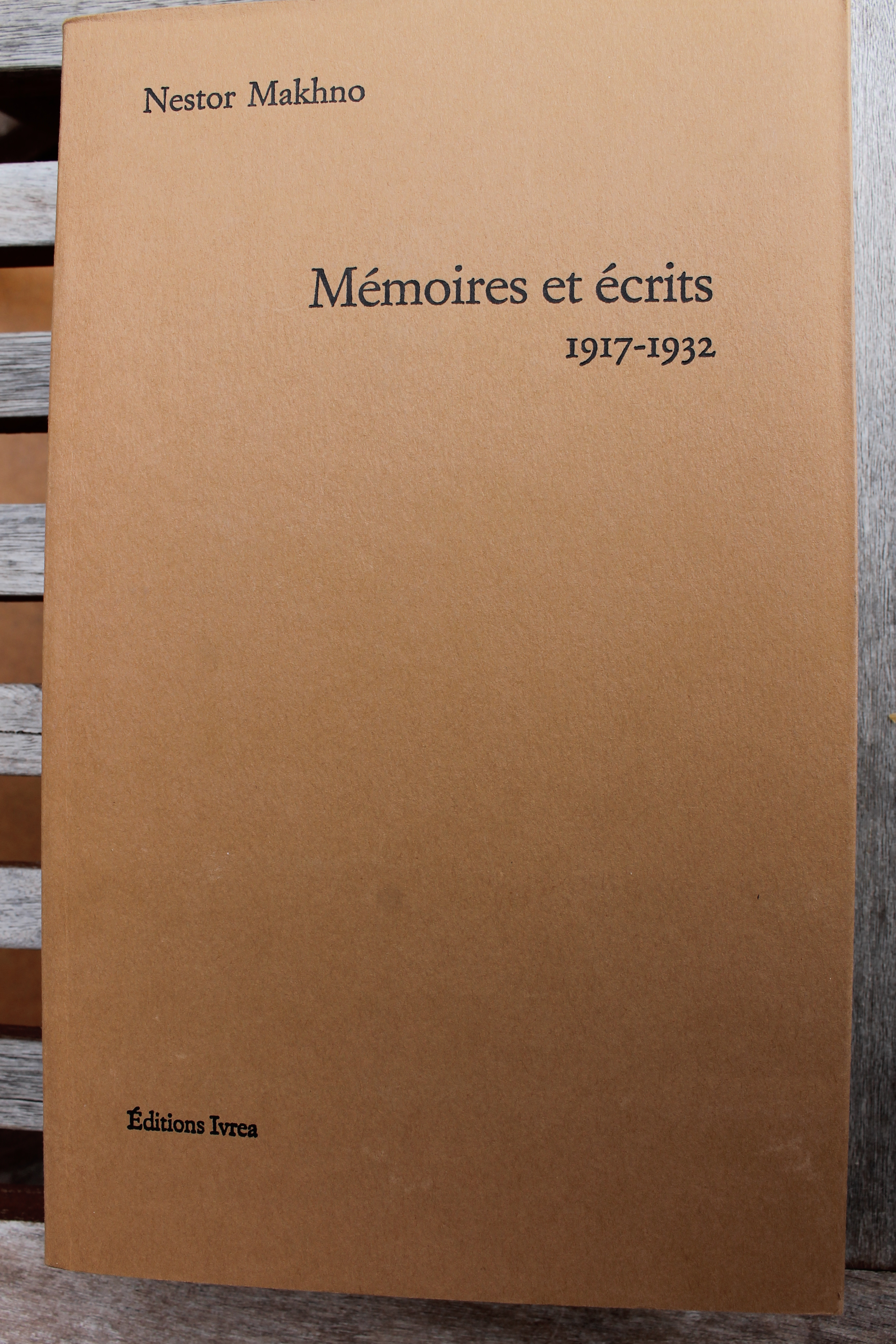 Mémoires et écrits by Nestor Makhno